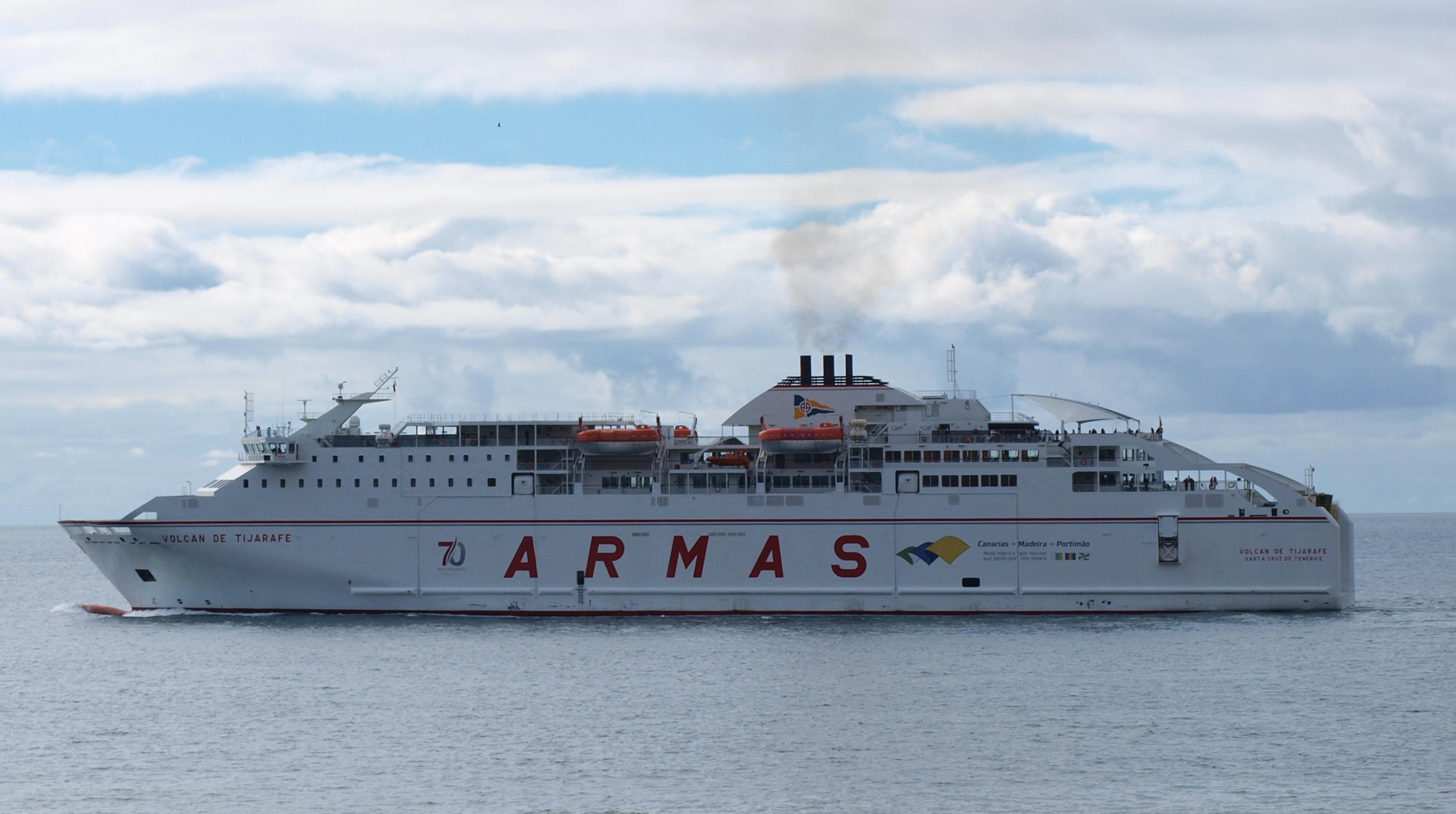 Volcán de Tijarafe (Naviera Armas) leaving Funchal (Madeira) 13. November 2010 IMO Number: 9398890 MMSI Number: 224692000 Callsign: ECNO Length: 154 m Beam: 24 m